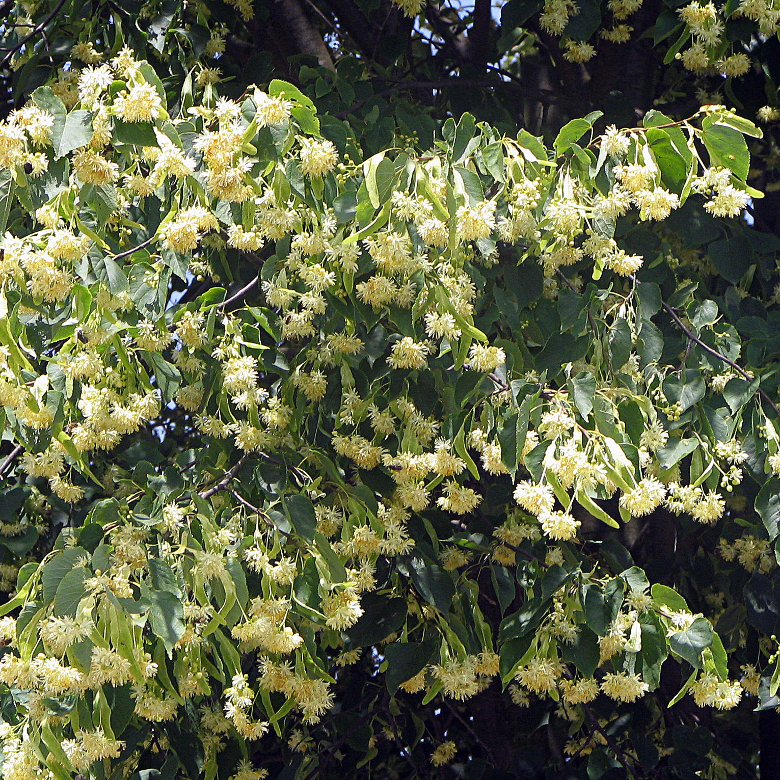 Tilia cordata flowering